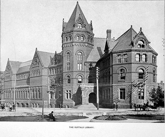 Original Buffalo Public Library 187 by Cyrus Eidlitz